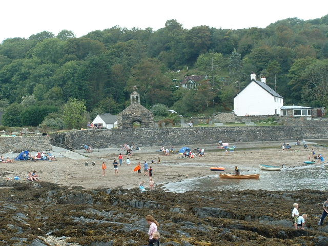 Cwm yr Eglwys beach. Looking west over the picturesque cove of Cwm yr Eglwys (valley of the church) with the belfry of the 12thC. church the rest of which was washed away in a storm in 1859.